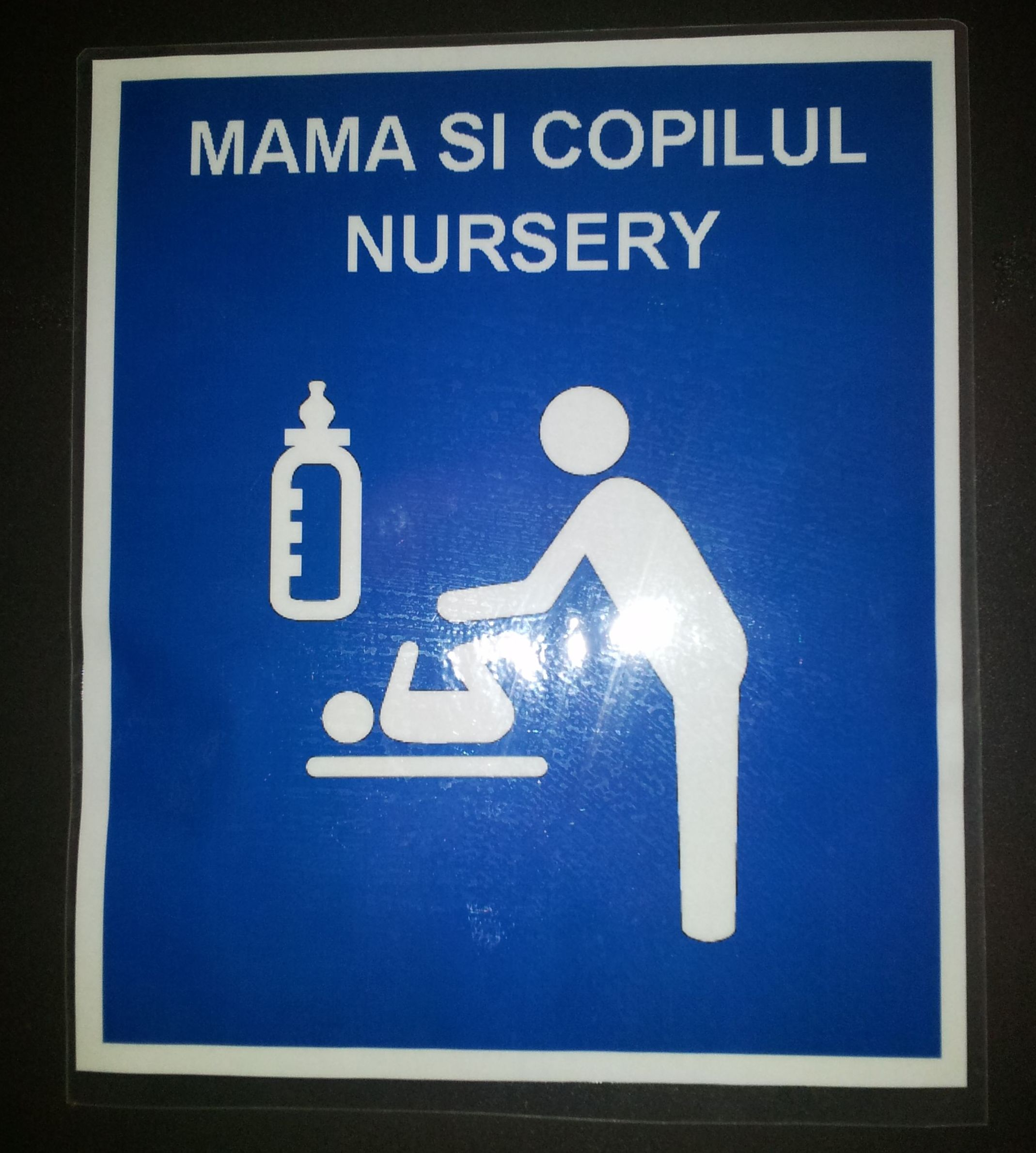 Discrimination Symbol in one institution in Romania with regard to the male parents (only mothers can change pampers)